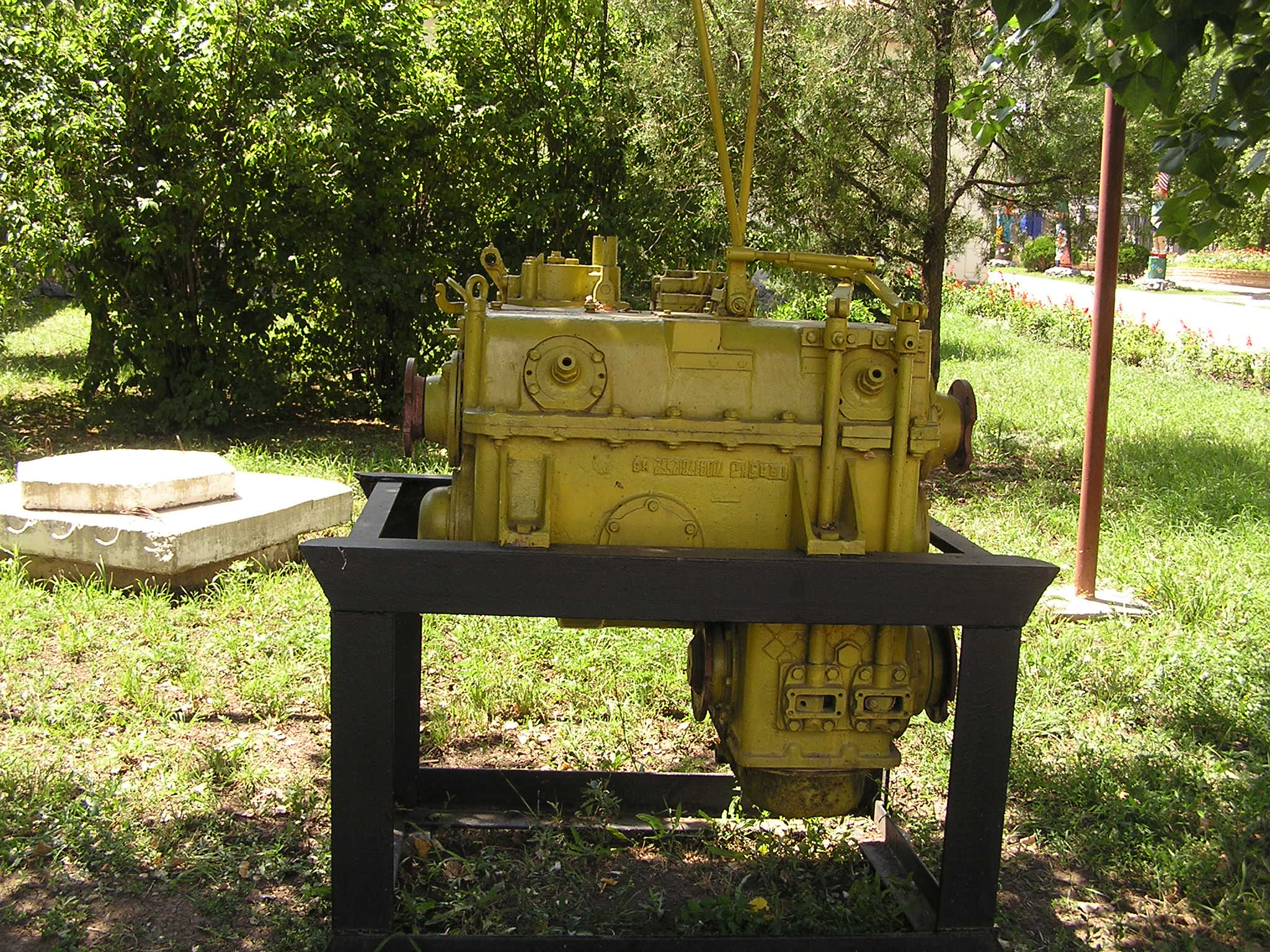 K-700A bulldozer's gearbox of Dokuchaevsk flux-dolomite сombined plant